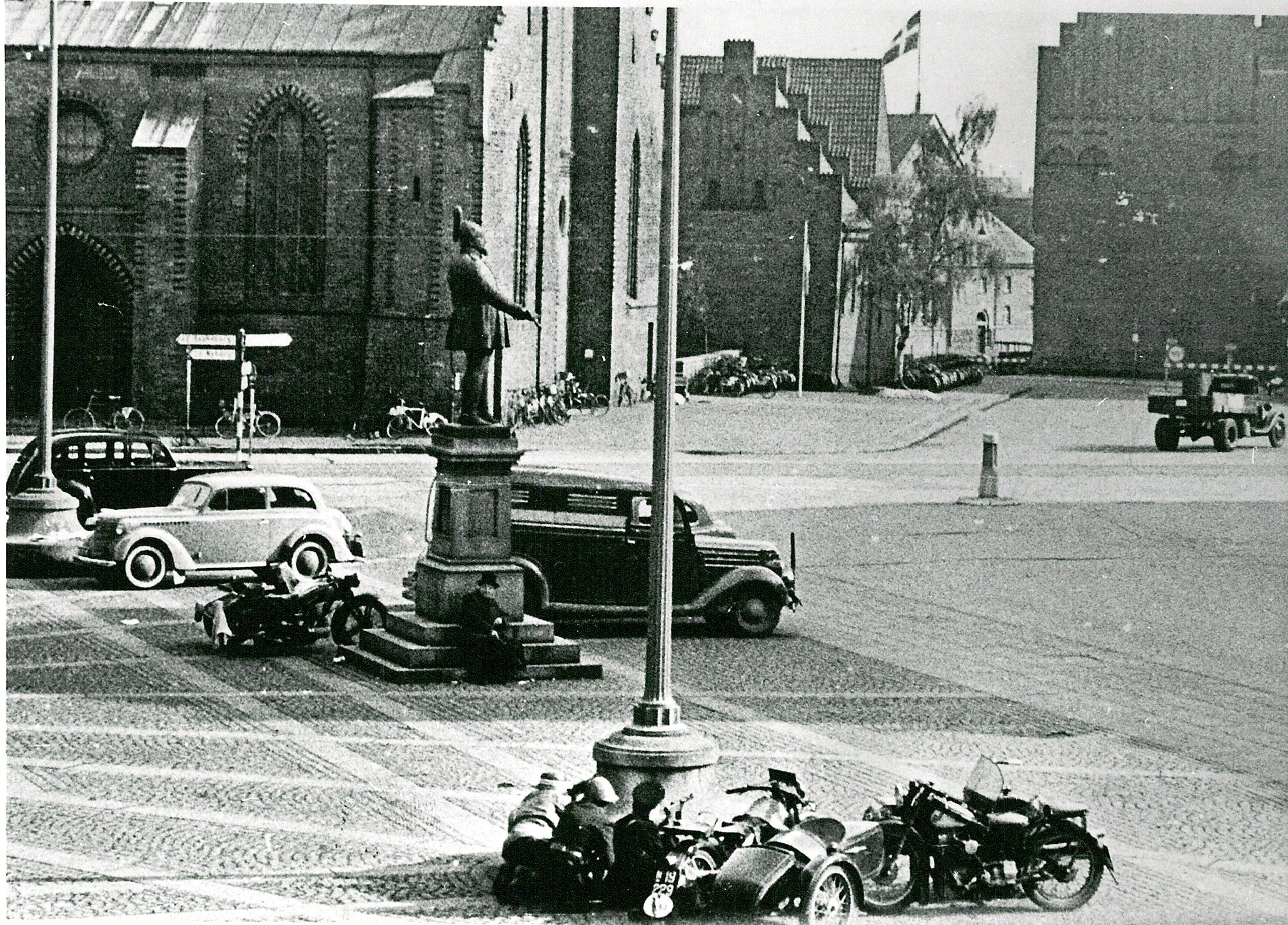 More images from The Museum of Danish Resistance